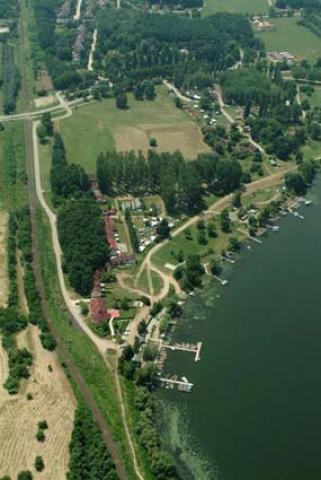 Tiszafüred, Hungary, aerialphotography